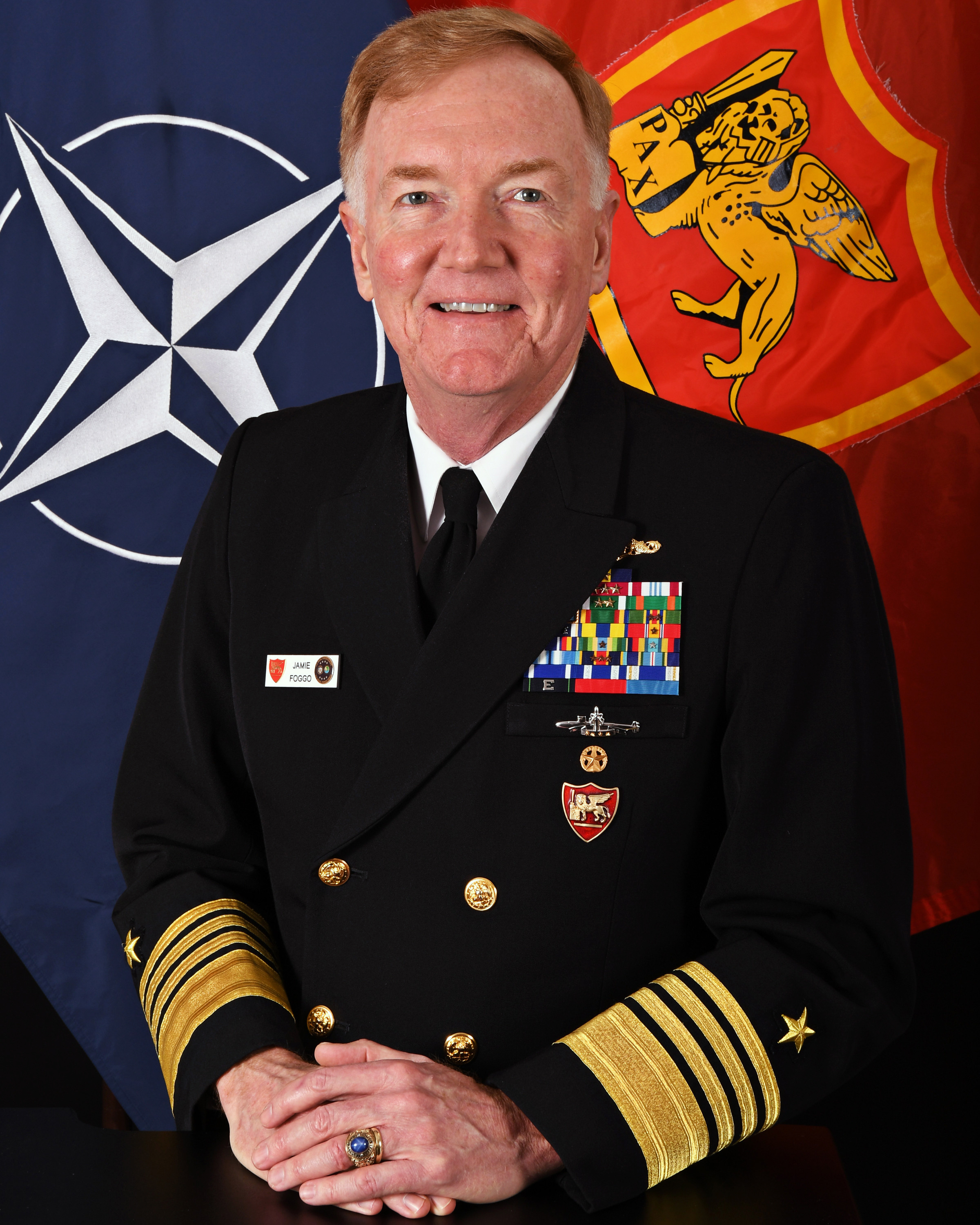 Commander, NAVEUR-NAVAF